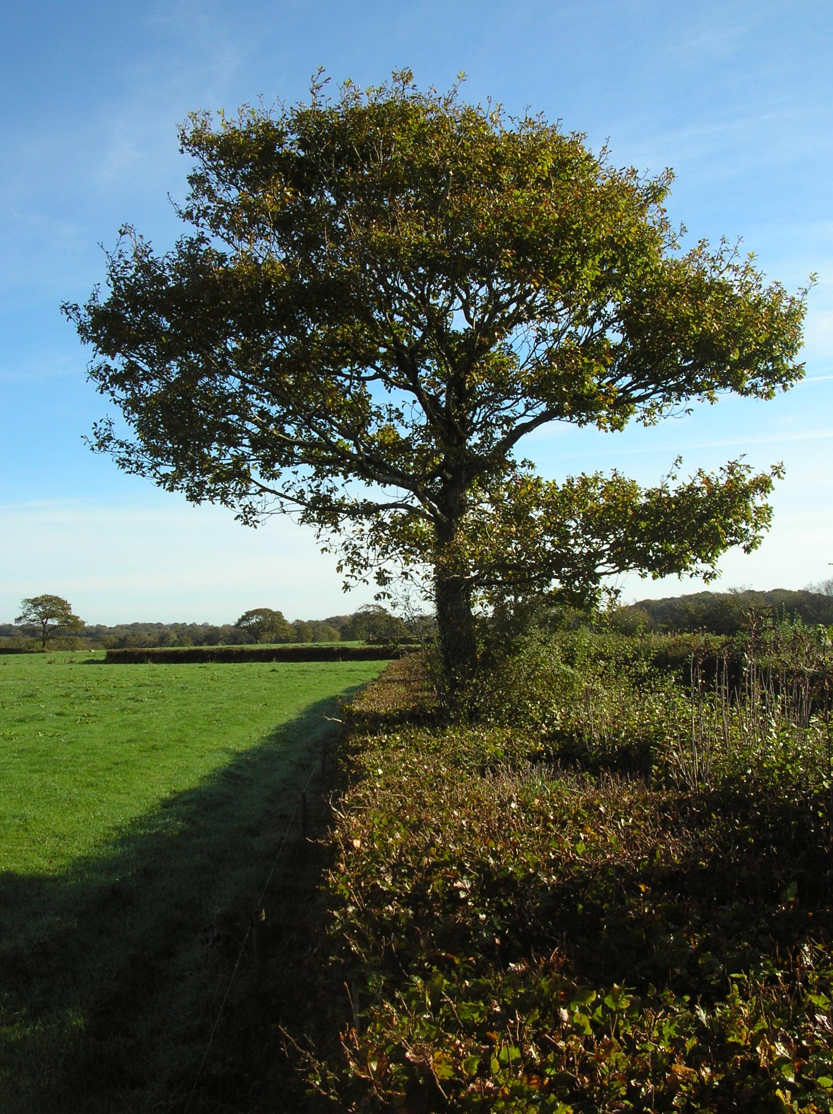 An oak tree stands out from a beech hedge.